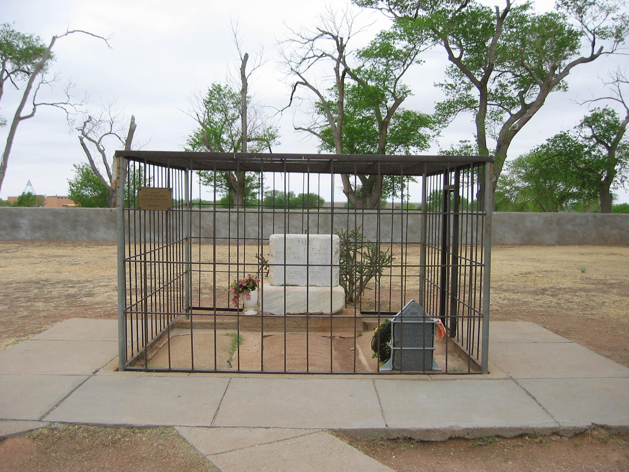 The Old Fort Sumner Cemetery with Billy The Kid's tumbstone.